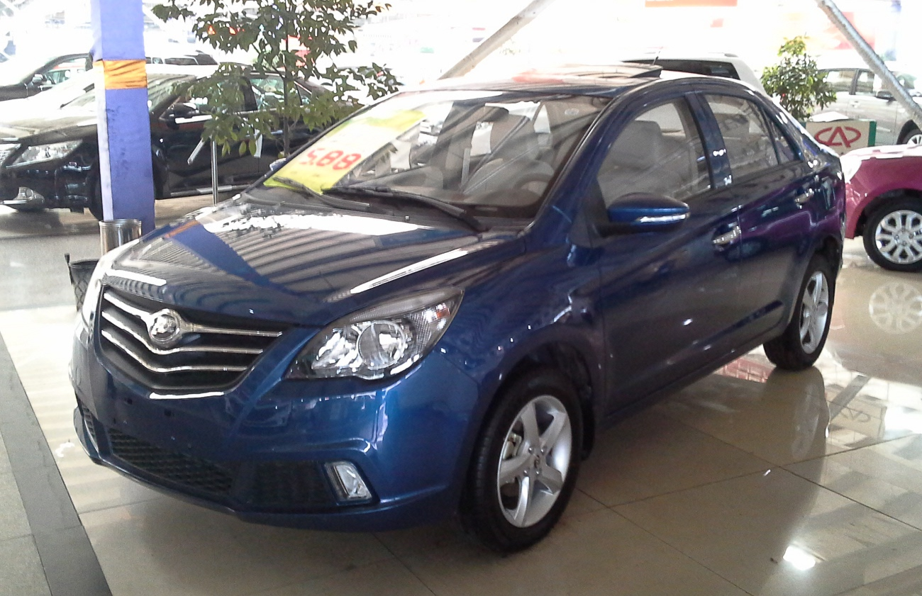 Lifan 530 photographed in Chengdu, Sichuan province, China.